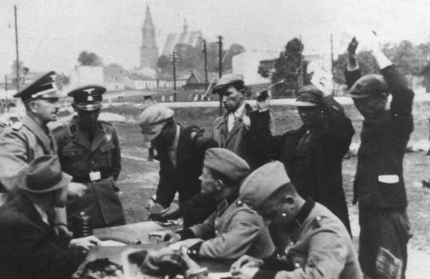 The Bloody Wednesday in Olkusz, German-occupied Poland, 31st July 1940. Verification of identity documents.